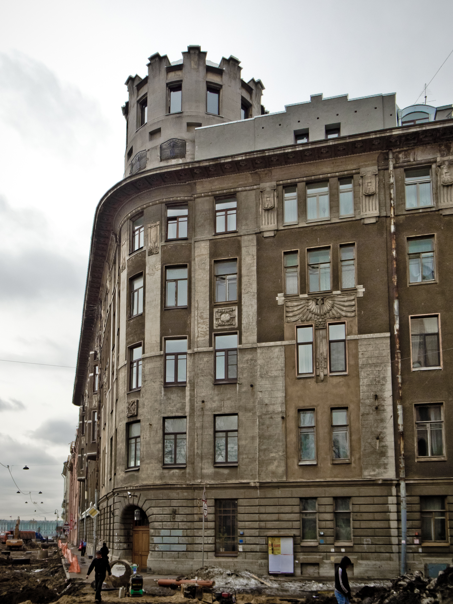 Saint Petersburg, 2, Blokhina street